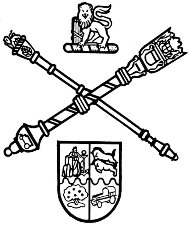 Coat of arms of the Parliament of South Africa 1932-2000